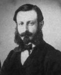 Paul Verne (1829-1897), French seaman and writer; Jules Verne's brather.